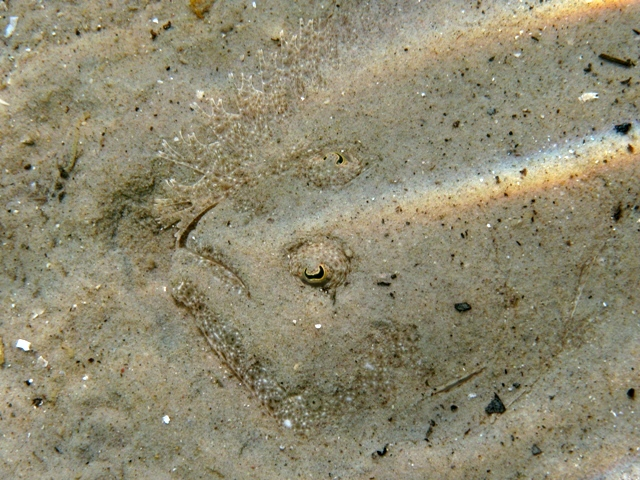 Scophthalmus rhombus photographed in Rab, Croatia.